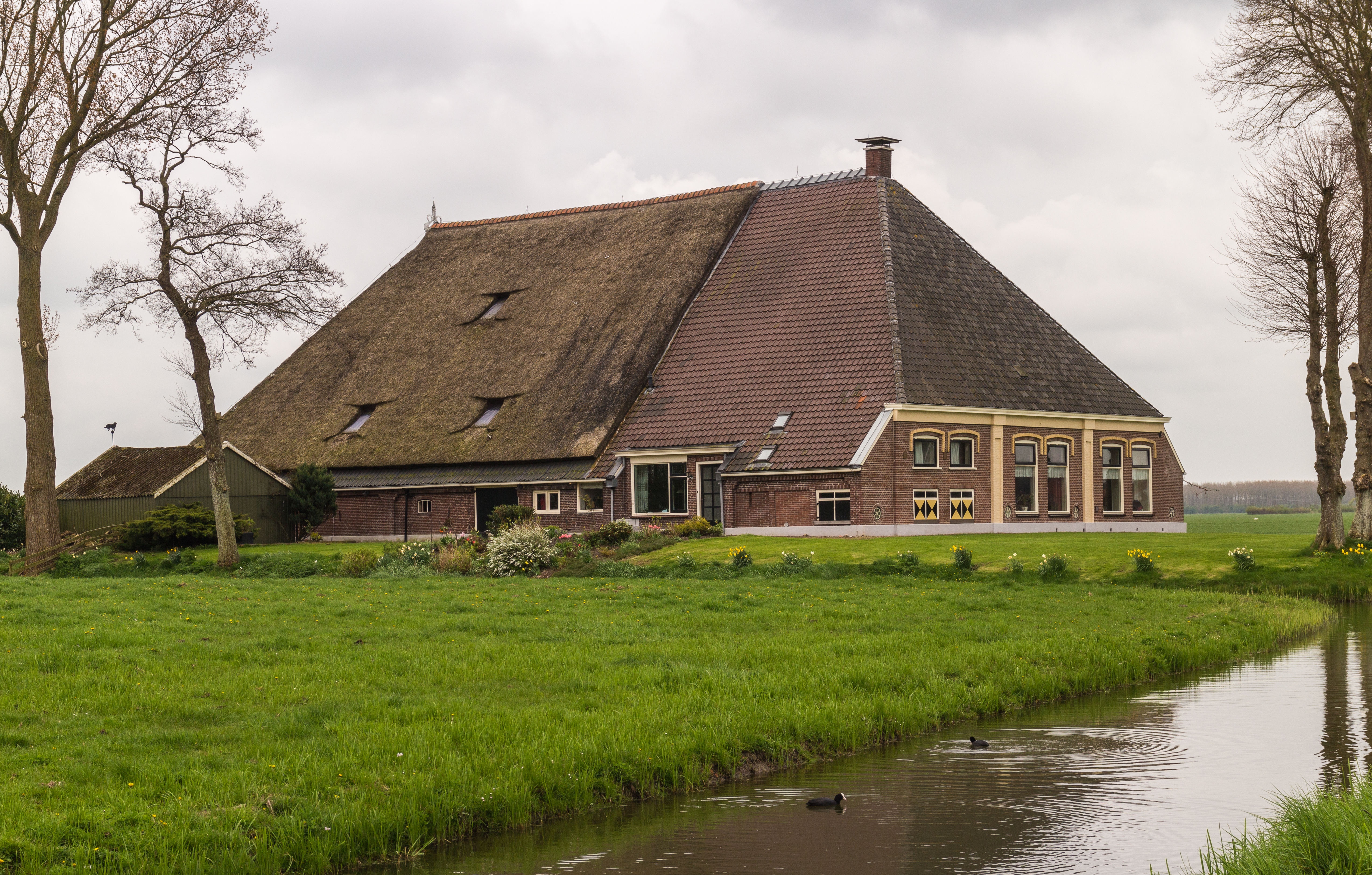 Characteristic farm, Aldlansdyk in Cornjum.